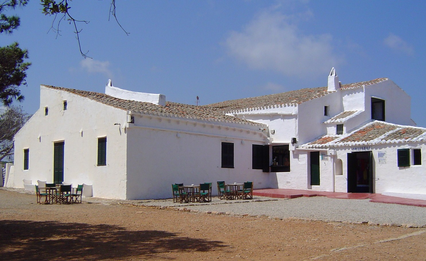 Santa Teresa house, where the Ecomuseum of Cap de Cavalleria (Menorca) has an archaeological exhibition.